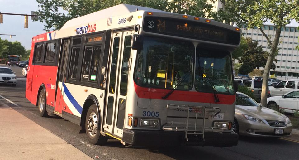 A 2006 WMATA Orion VII CNG